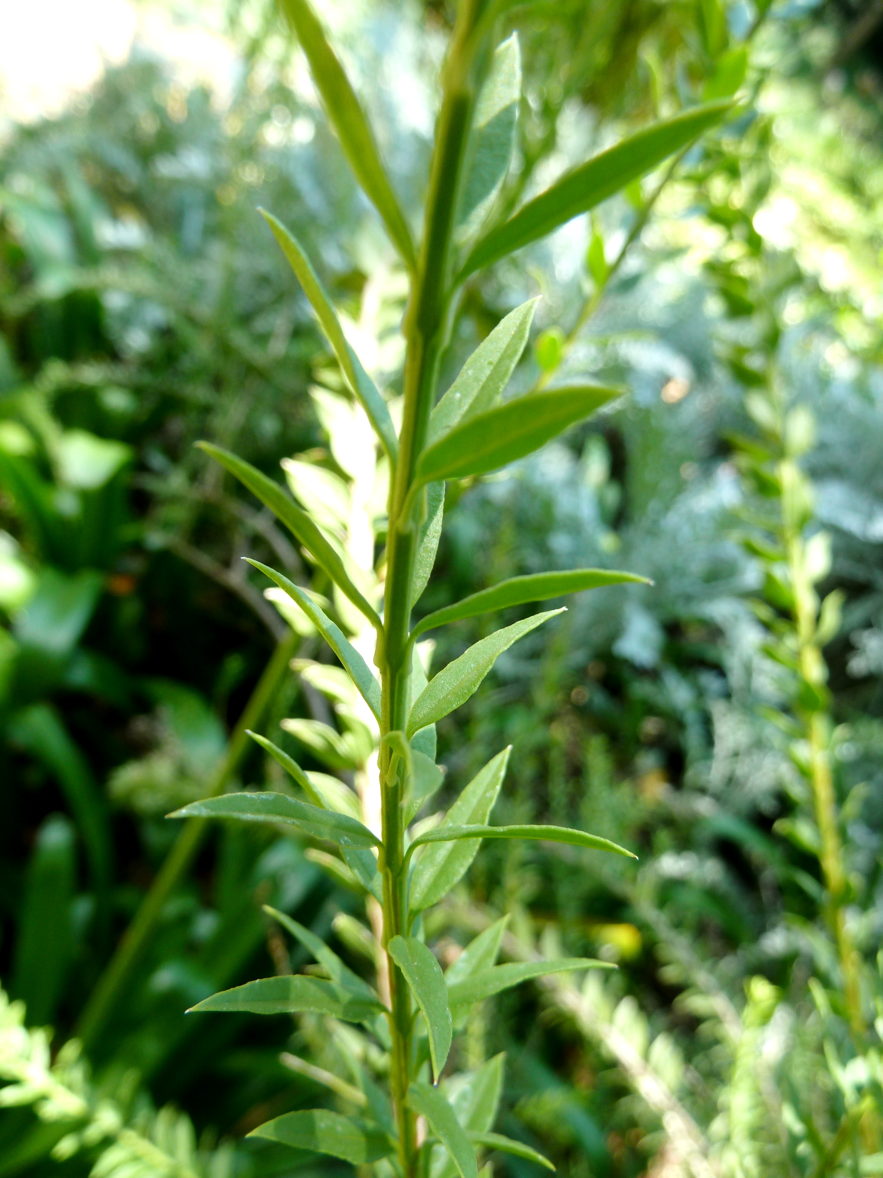 Bell bush at the Manie van der Schijff Botanical Garden, Pretoria